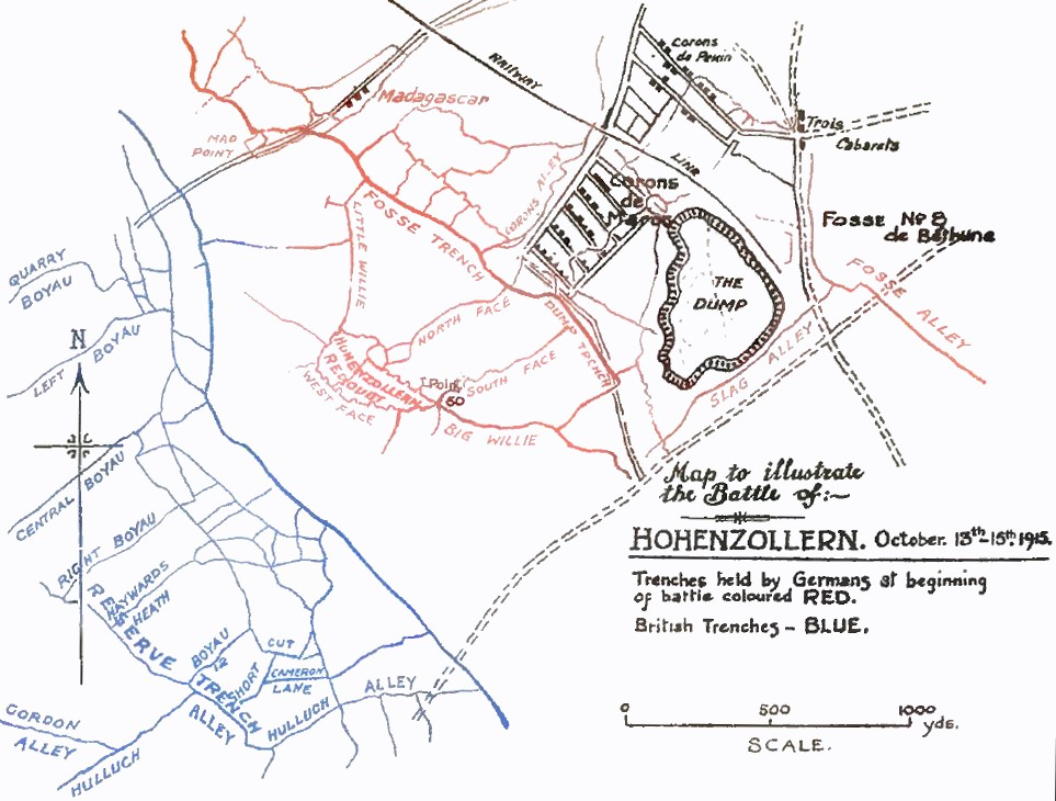 Trench map depicting the Hohenzollern Redoubt in October 1915.